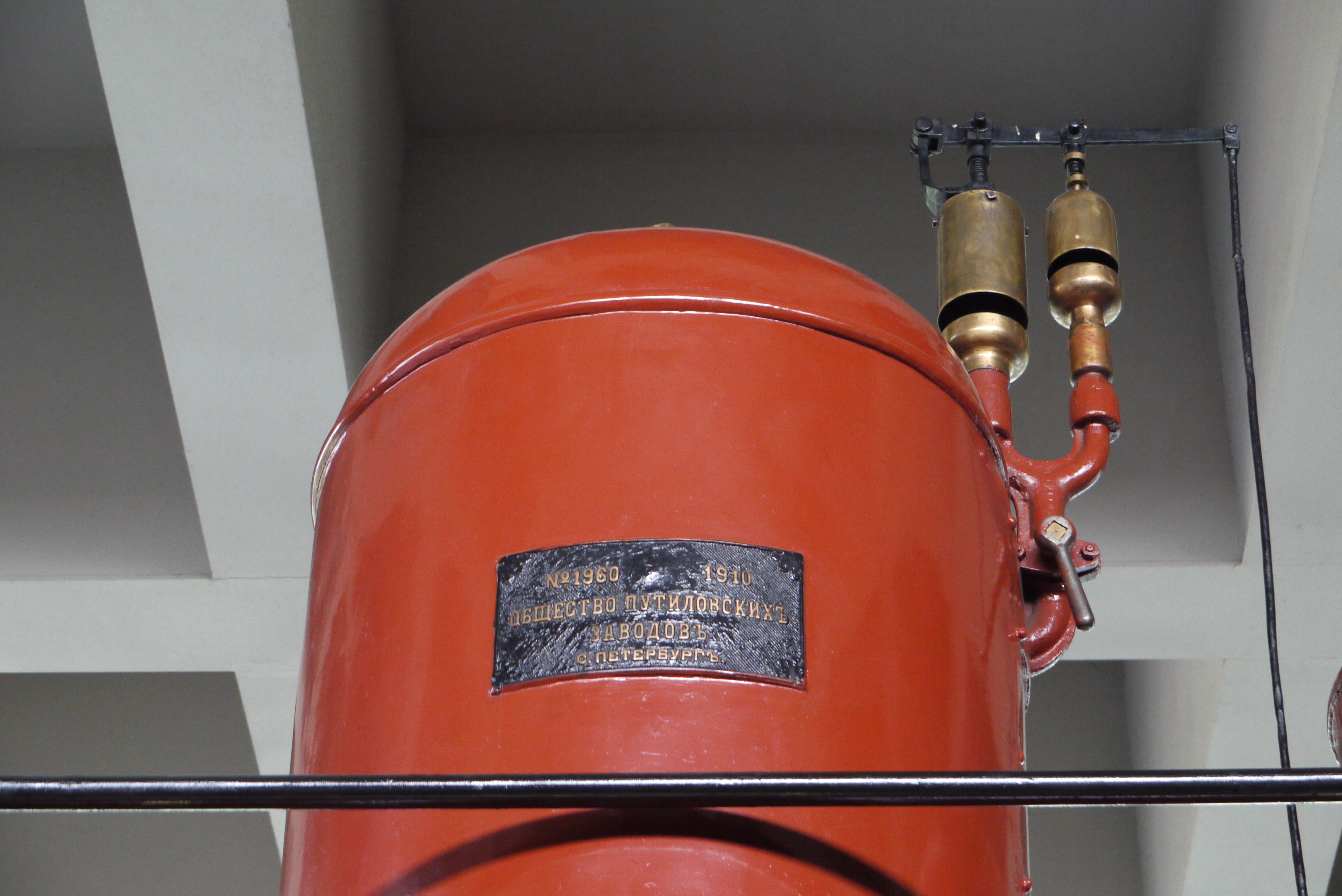 Builder's plate and steam dome of U-127 Lenin's Locomotive (a 4-6-0 oil burning compound locomotive) at the Museum of the Moscow Railway at Paveletsky Rail Terminal